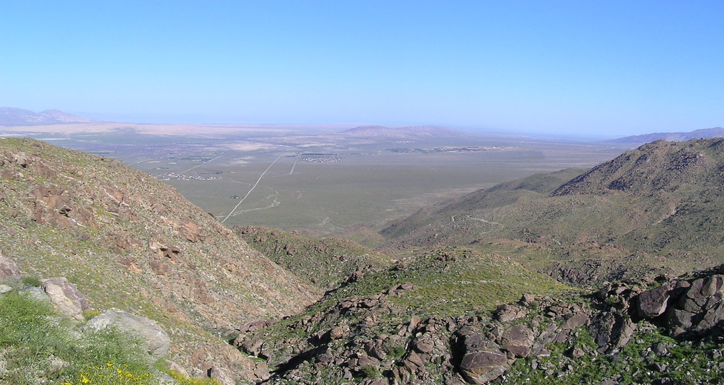 A view of the Anza-Borrego Desert State Park, San Diego County, California, United States of America.